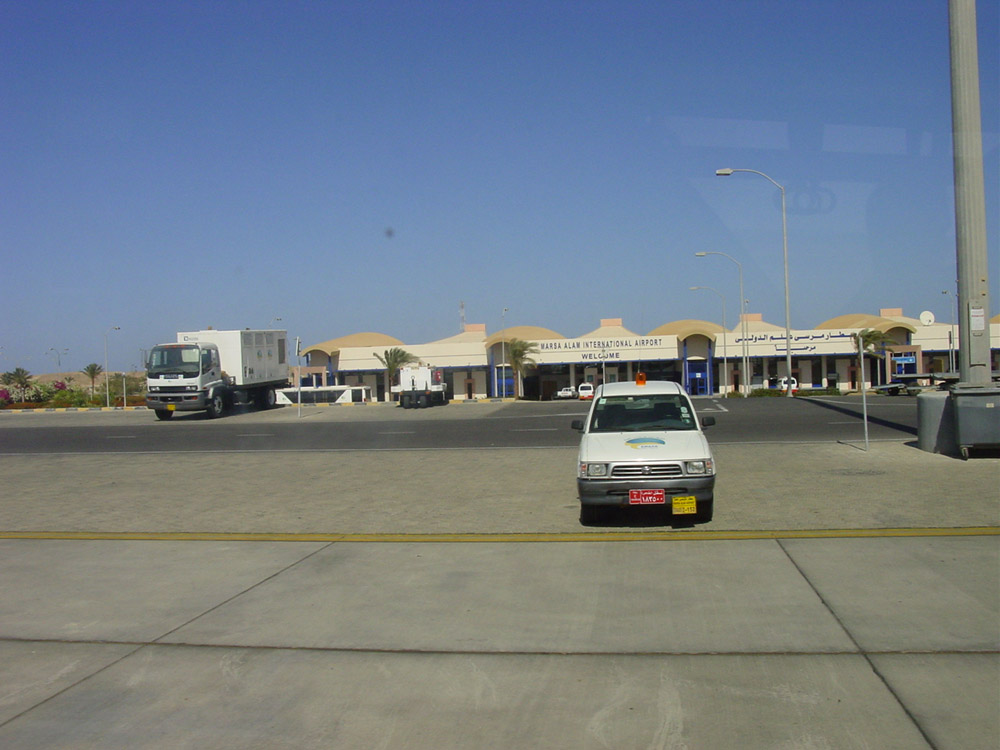 Marsa Alam International Airport: Terminal